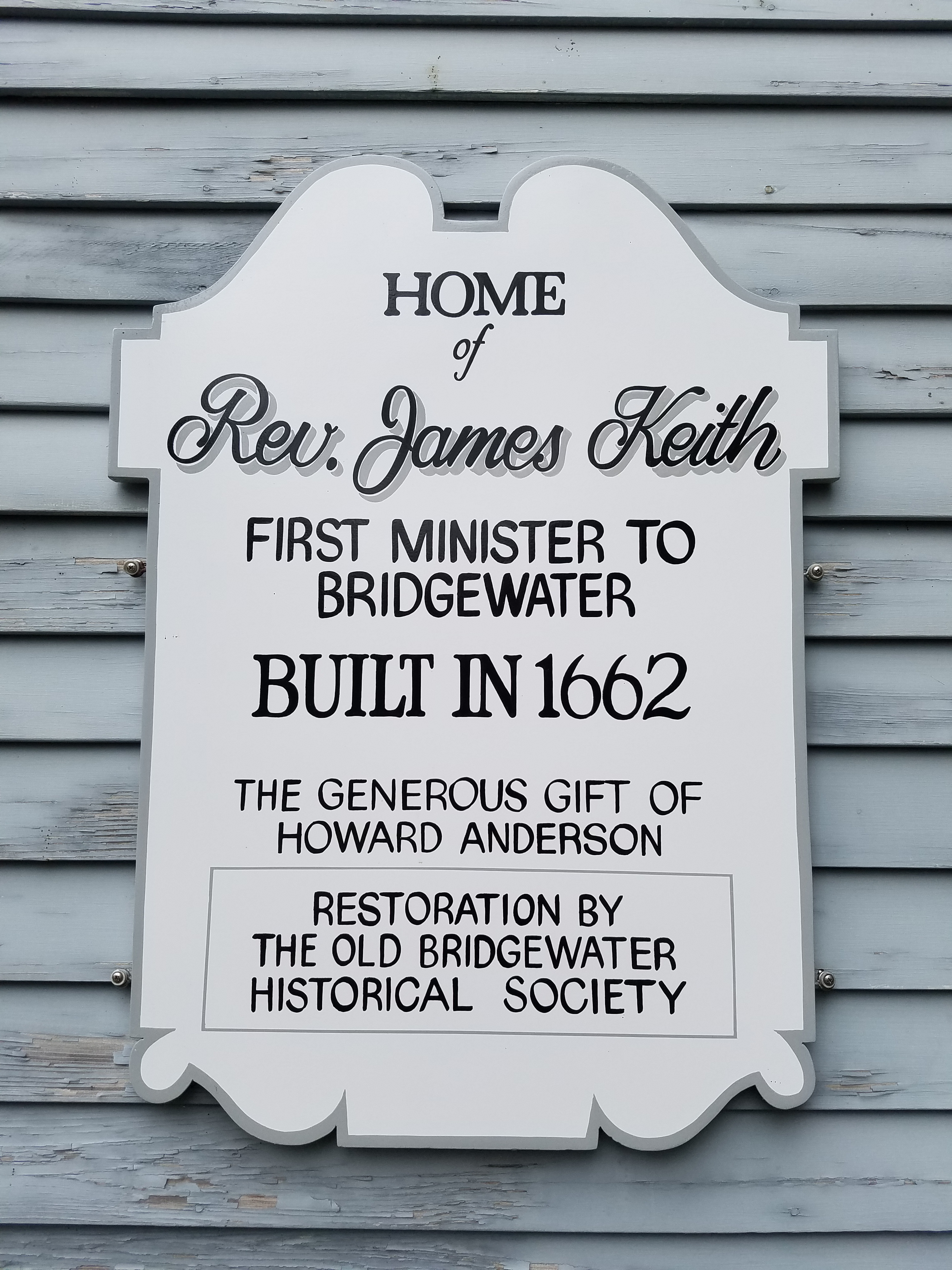 Building located at 199 River Street in West Bridgewater, MA